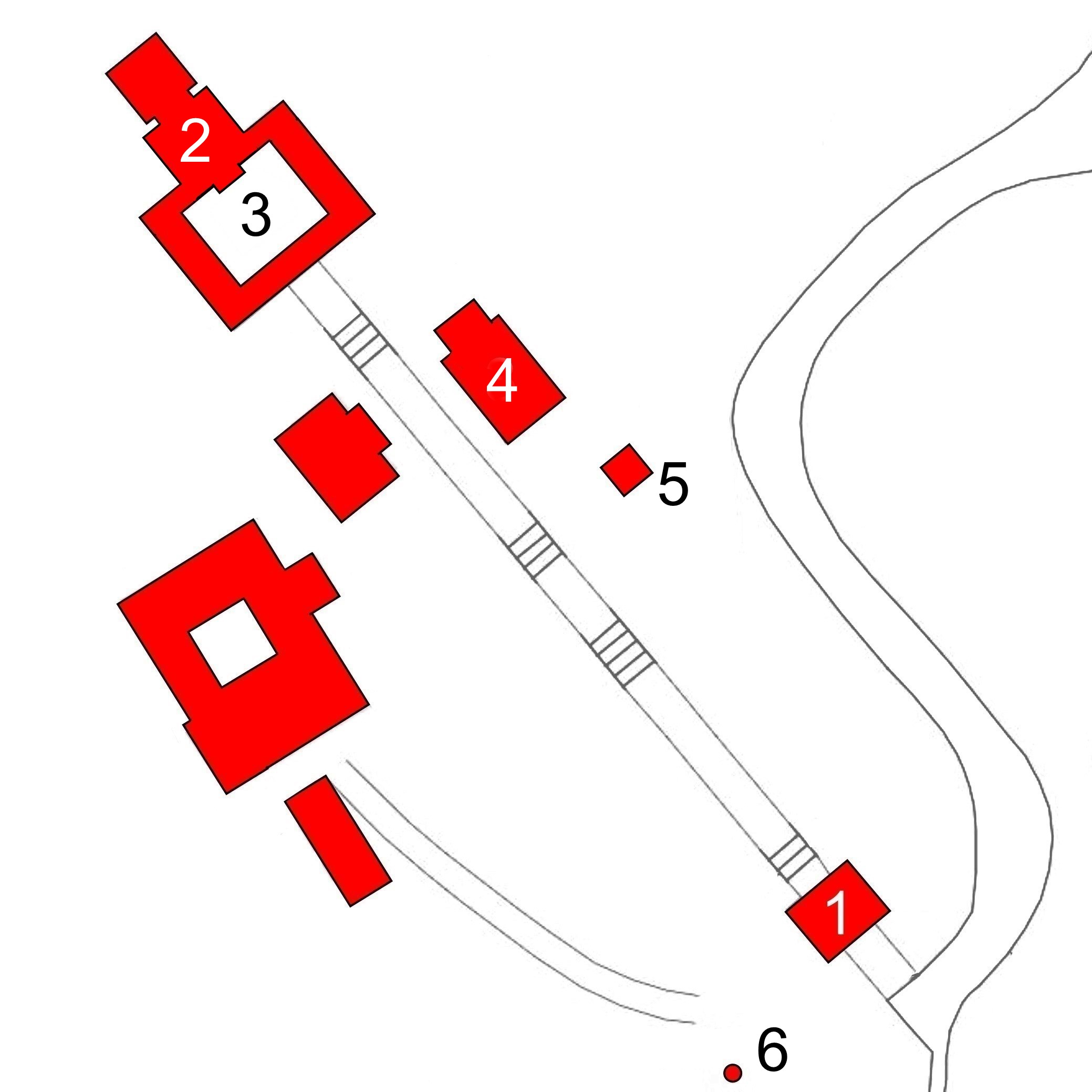 Layout of Negoro temple at Takamatsu